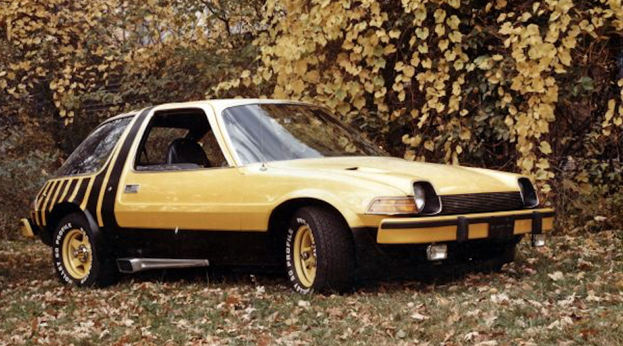 1976 AMC Pacer Stinger, a customized show car. The exterior features a matte black painted lower body panels and yellow pearl paint that faded to a pale yellow on the roof. The back half of the car has over-the-roof matte black “bumble bee” stripes that continue on the tailgate. The oversize radial tires are mounted on “Jackman Star” (brand) aluminum racing road wheels. Other features include a side mounted exhaust, NACA duct on the hood, auxiliary Cibie (brand) driving lights, as well as a front spoiler and wheel well fender extensions. The Stinger’s interior is finished in black with a floor-mounted shifter and front bucket seats with center console. The upholstery inserts for the front and rear seats are customized in black and yellow stripes while the door panels have side cushions in yellow.